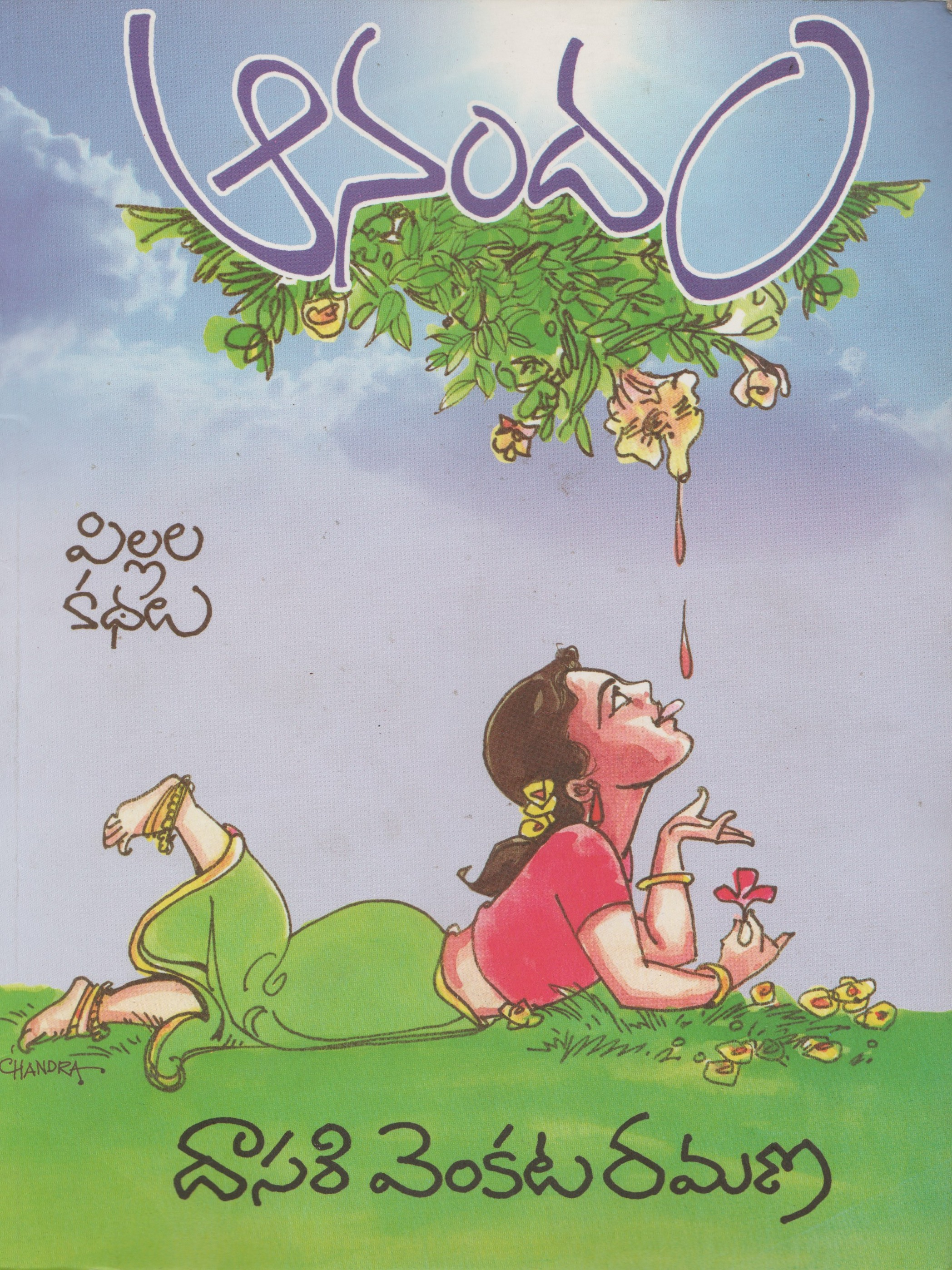 Anandam by Dasari Venkataramana cover, a kid's story book